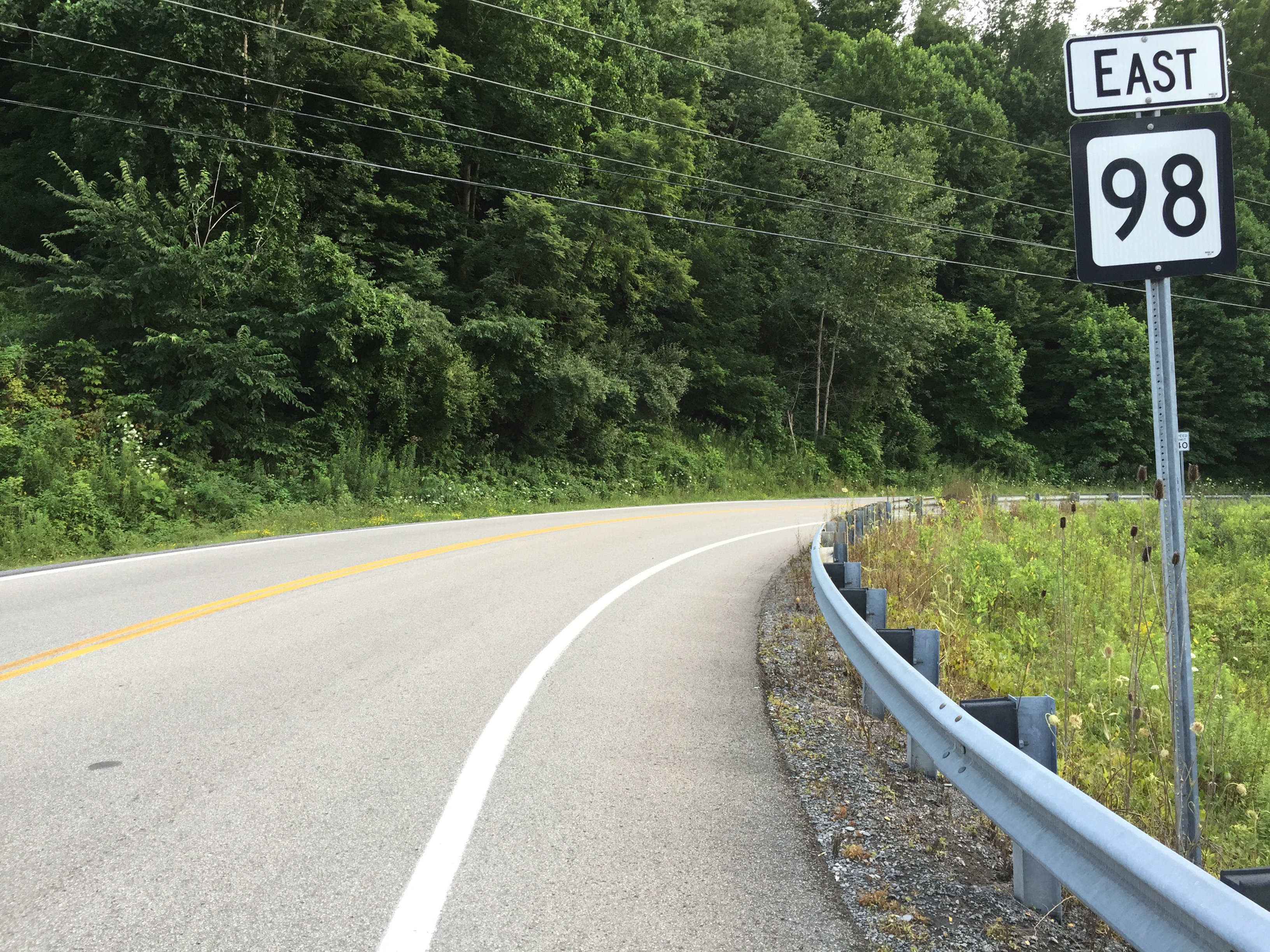 View east along West Virginia State Route 98 (Sunvalley Road) at U.S. Route 50 (Northwestern Turnpike) in Wilsonburg, Harrison County, West Virginia